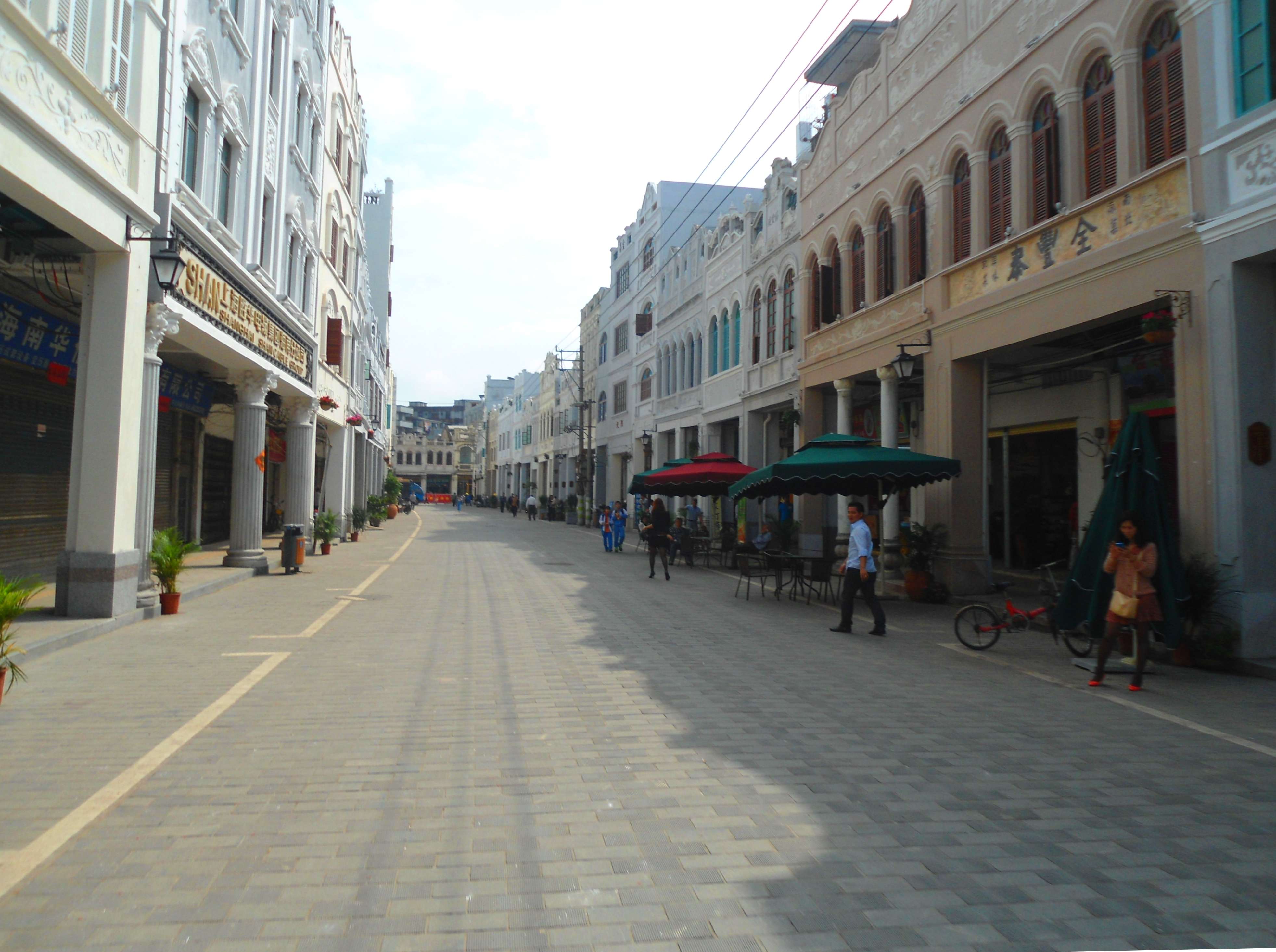 Zhongshan Road after restoration